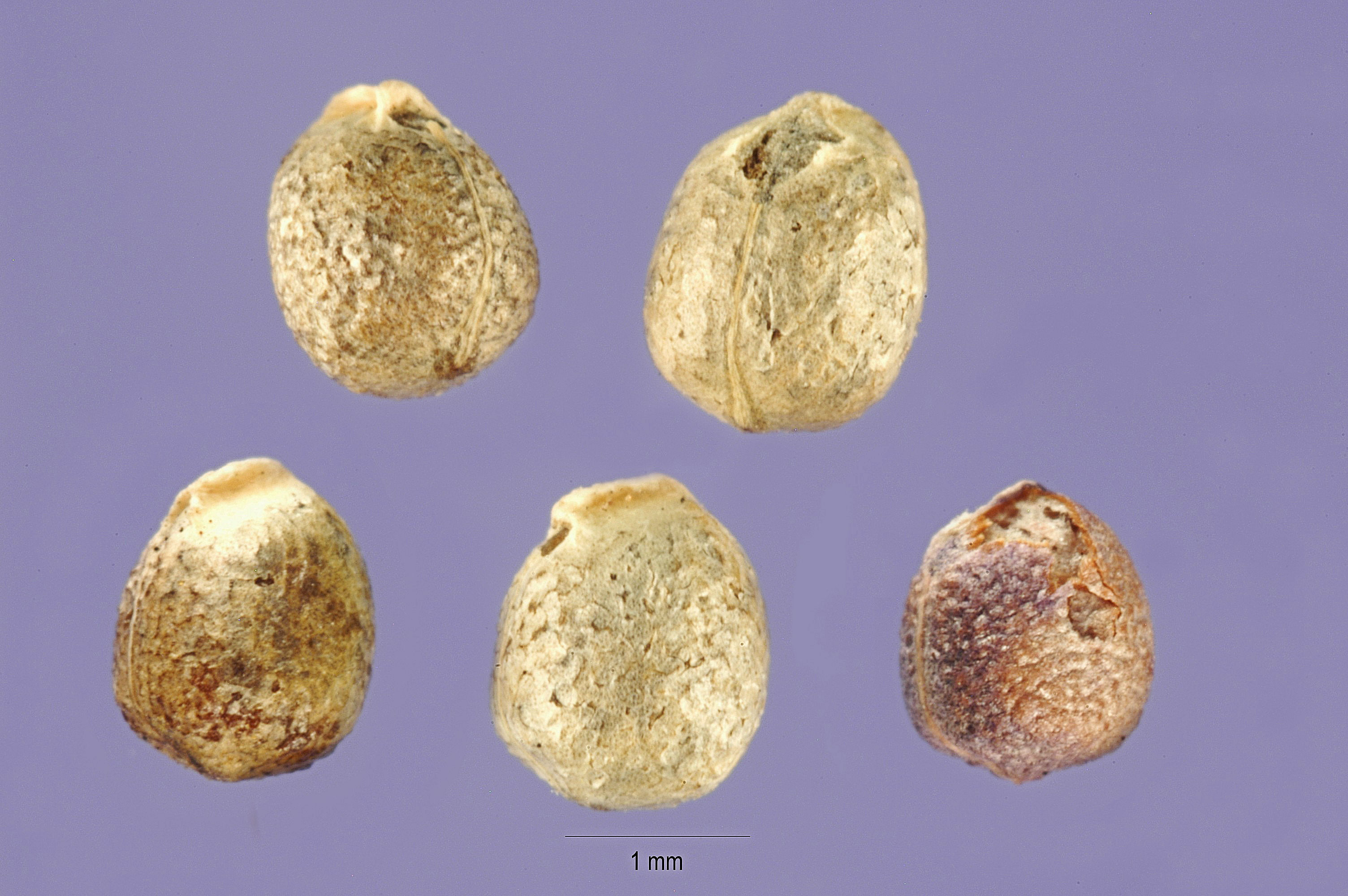 Mercurialis annua seeds